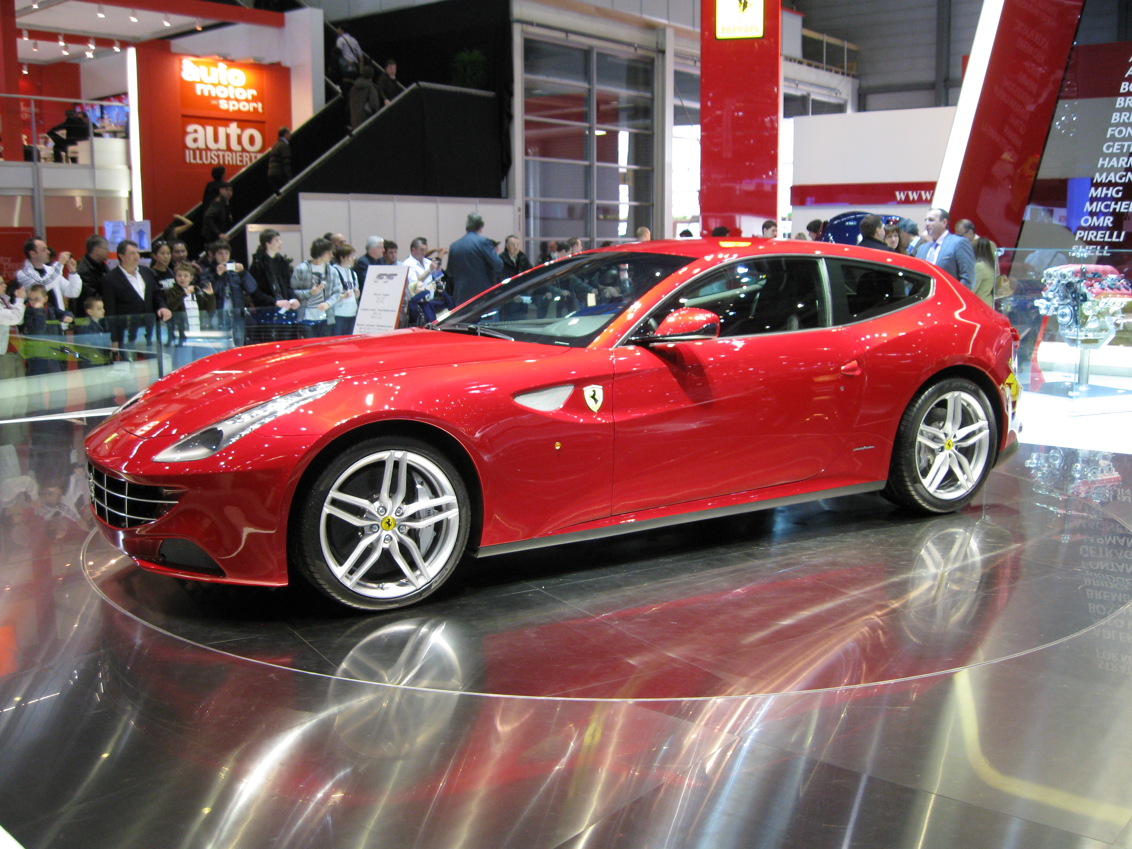 Geneva Motor Show 2011